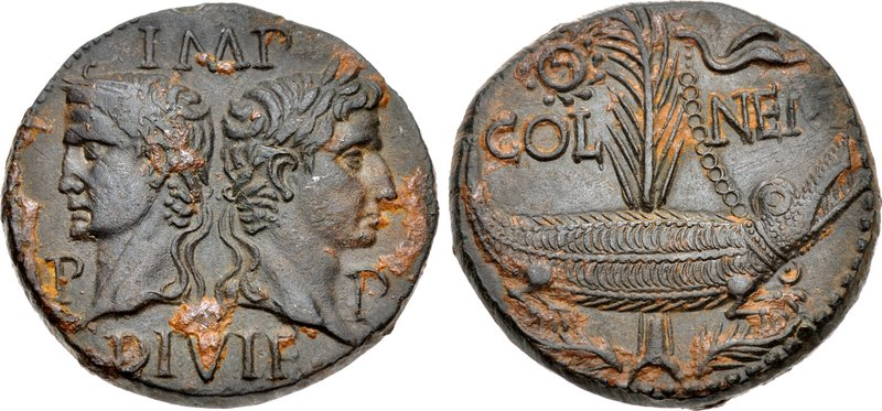 Gaul, Nemausus. Augustus, with Agrippa. 27 BC-AD 14. Æ As(?) (27mm, 12.82 g, 12h). Struck circa AD 10-14. Heads of Agrippa, wearing rostral crown and wreath, left and Augustus, laureate, right, back to back; P P across fields Crocodile right chained to palm branch with long vertical fronds; wreath with long ties above, palms below.